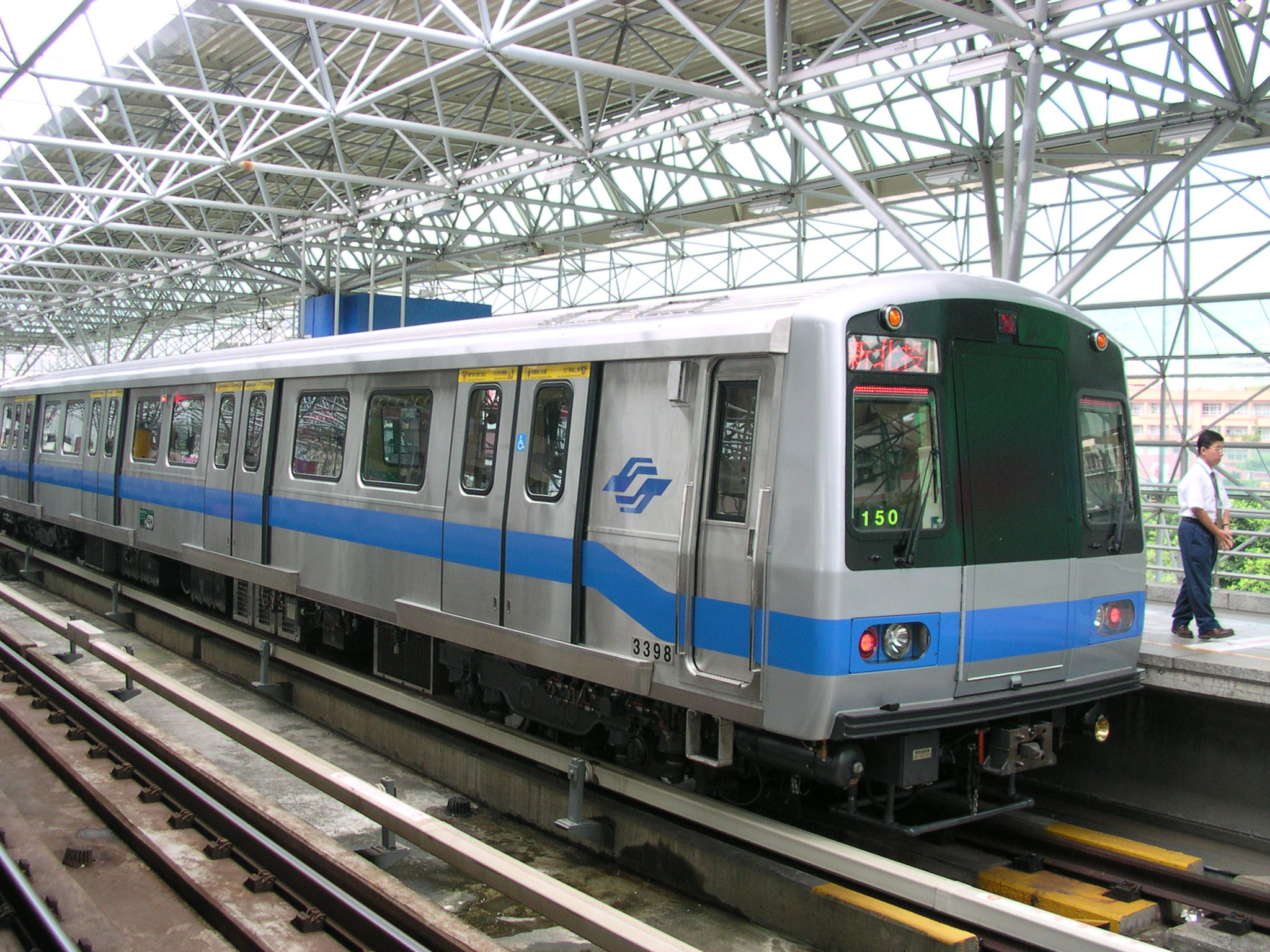 Taipei MRT Train. Car type: C371 as 3-car set. Vehicle No.:3398 Bân-lâm-gú: Tâi-pak Tsiat-ūn tshia, tshia-hîng: C371 sann-tsat-sik, tshia-hō: 3398. 臺北捷運C371型電聯車，車號3398。